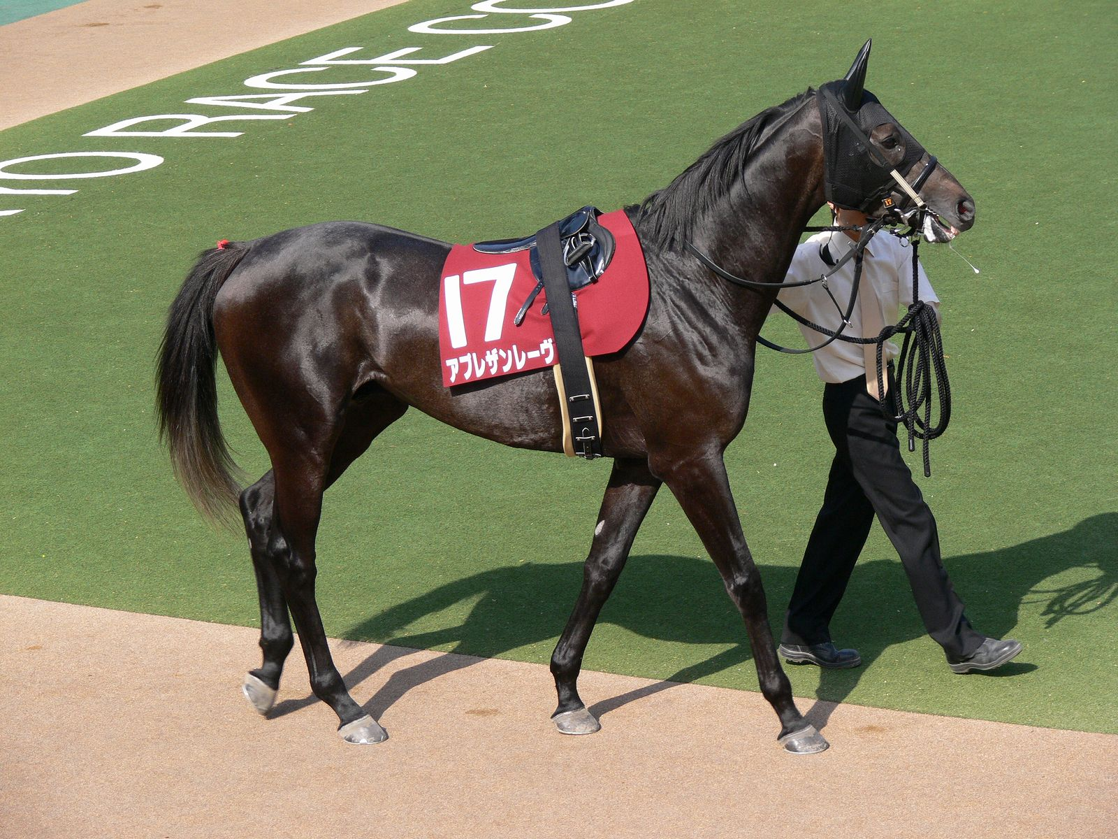 Japanese race horse "Apres un Reve" in Tokyo racecourse.